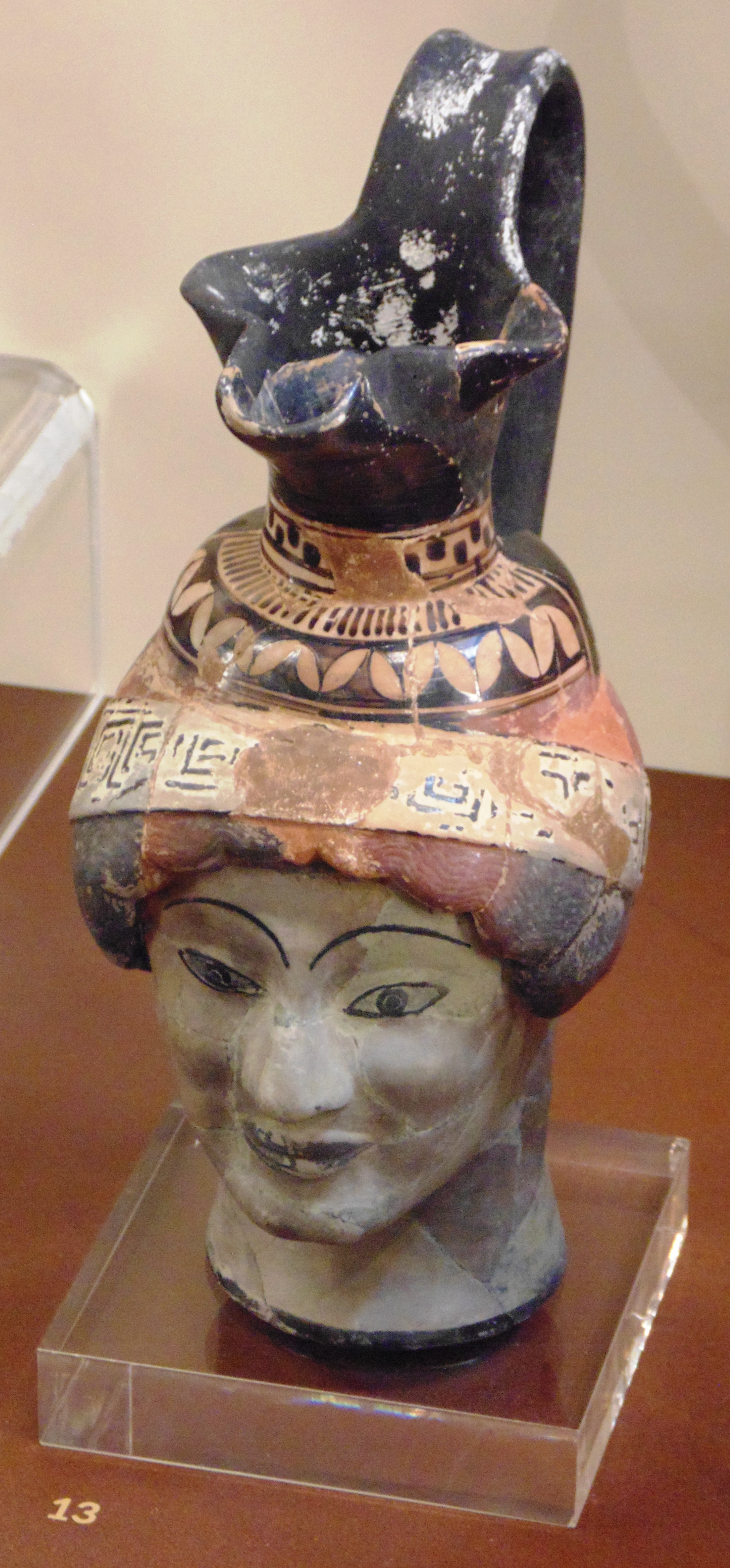 Collection of Archaeological Museum of Thebes